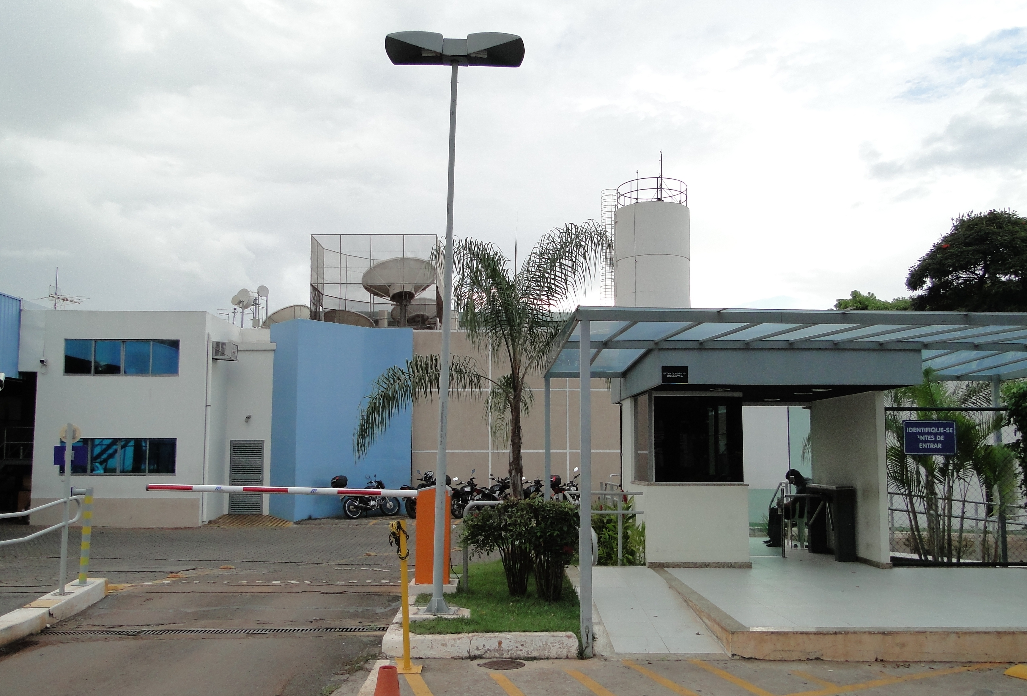 Headquarters of TV Globo - Brasília.